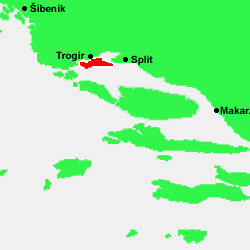 Locator map of island of Čiovo, Croatia